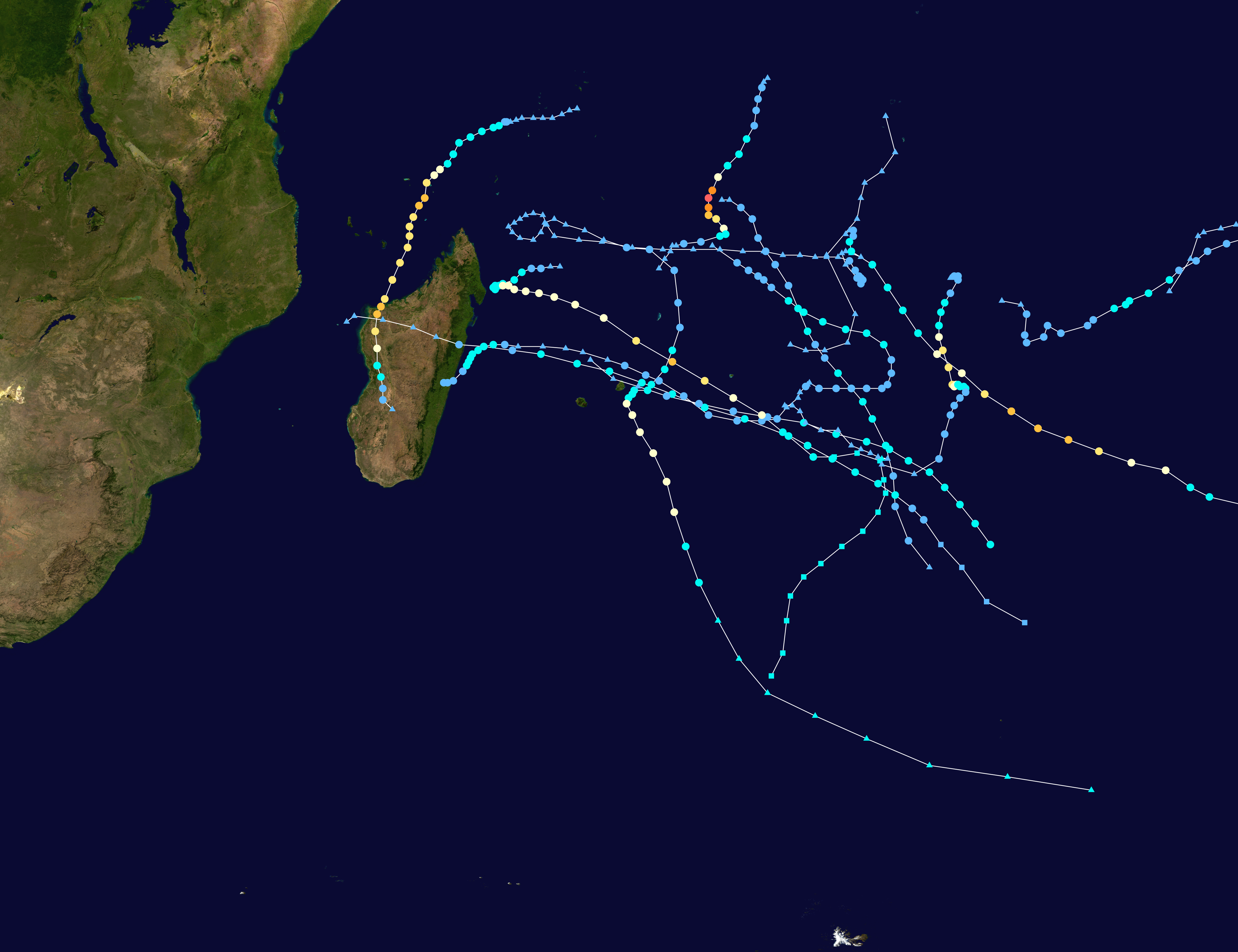 This map shows the tracks of all tropical cyclones in the 2019-20 South-West Indian Ocean cyclone season. The points show the location of each storm at 6-hour intervals. The colour represents the storm's maximum sustained wind speeds as classified in the Saffir-Simpson Hurricane Scale (see below), and the shape of the data points represent the type of the storm. Saffir–Simpson scale Tropical depression≤38 mph≤62 km/h Category 3111–129 mph178–208 km/h Tropical storm39–73 mph63–118 km/h Category 4130–156 mph209–251 km/h Category 174–95 mph119–153 km/h Category 5≥157 mph≥252 km/h Category 296–110 mph154–177 km/h Unknown Storm type Tropical cyclone Subtropical cyclone Extratropical cyclone / Remnant low / Tropical disturbance / Monsoon depression